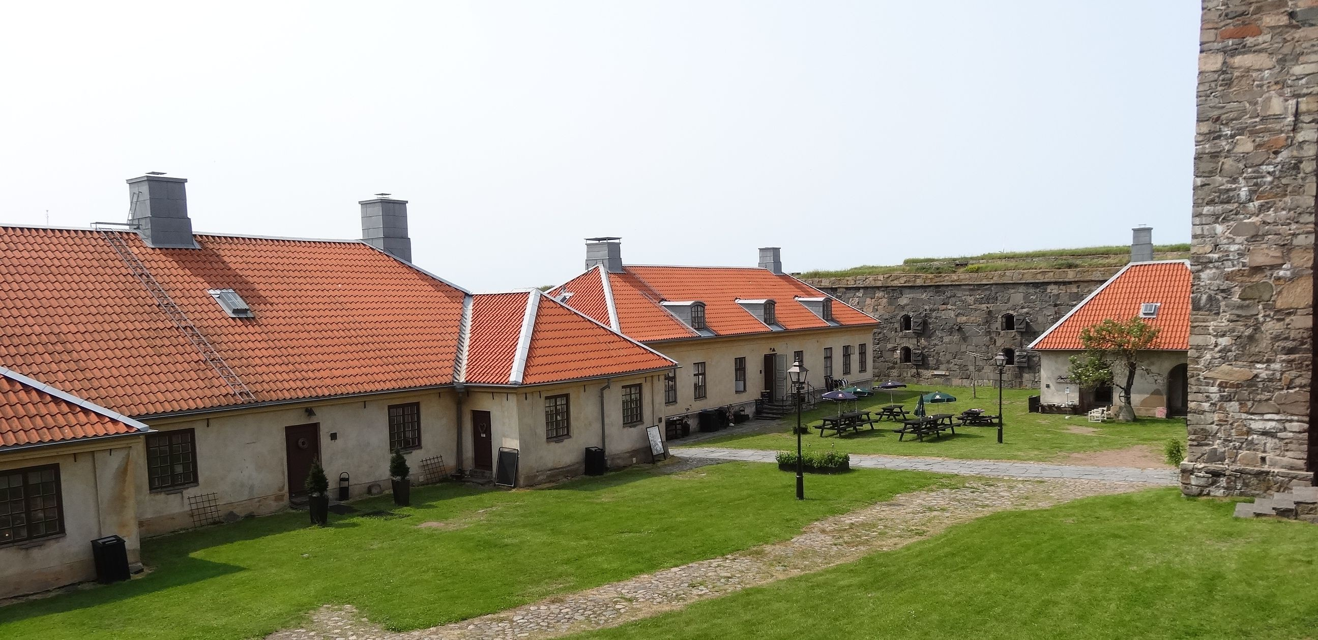 The Courtyard on Nya Älvsborg fortress, Sweden, with Officer´s Quarters to the left, Governor´s house in the center, and Corps de Garde to the right. In the backgrund is Curtainwall 9 with cells for prisoners.